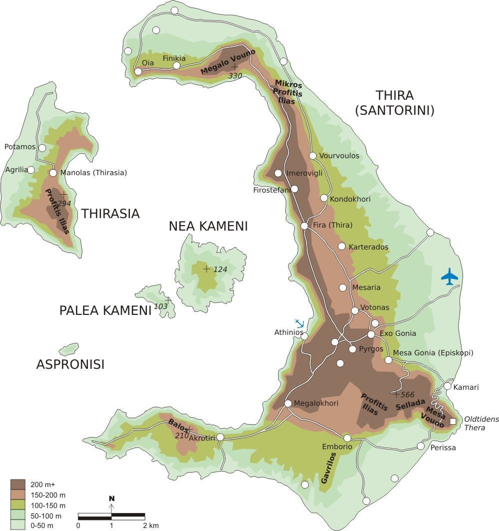 Topographical map of Santorini as JPG. Source file available. See SVG file as alternative. Admins may edit or delete one of these if desired.